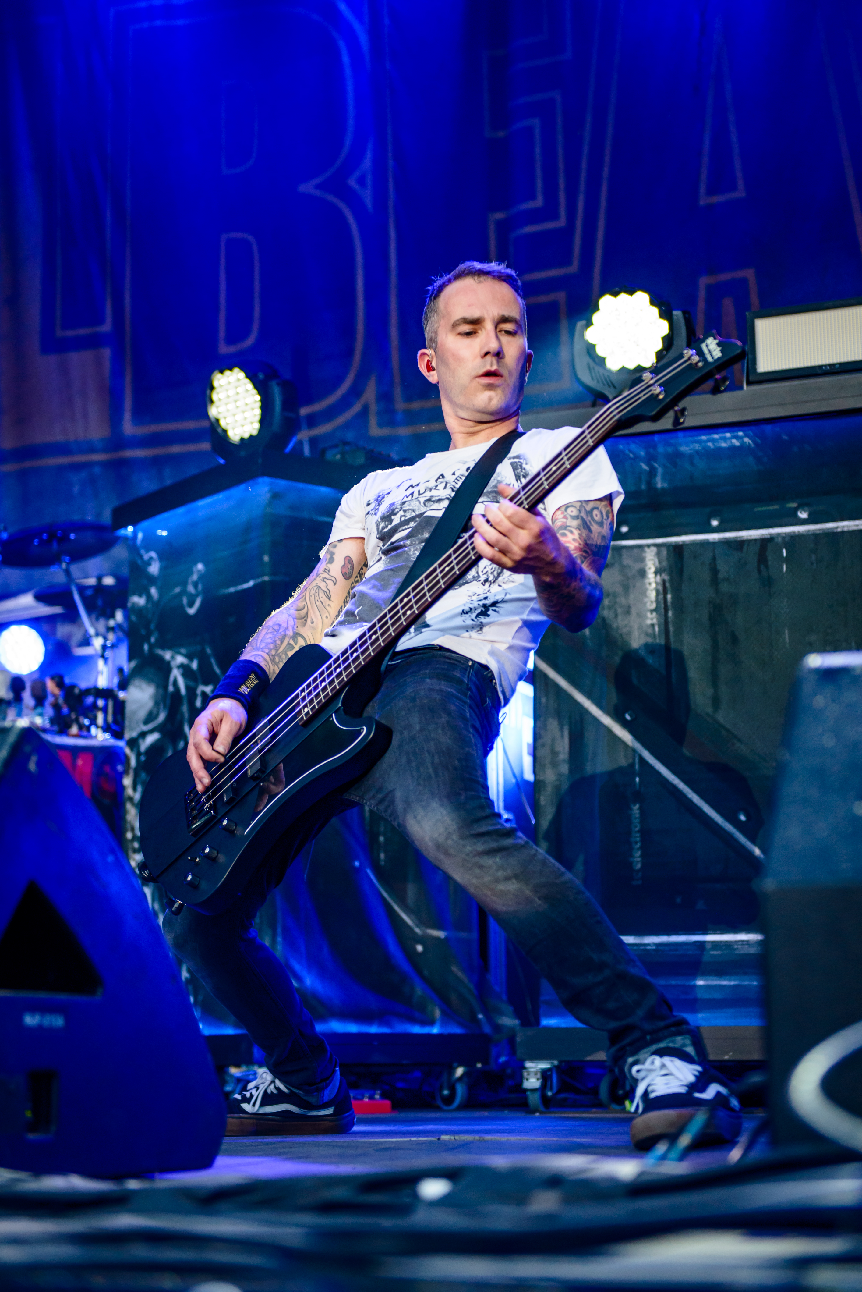 Volbeat; Citadel Music Festival 2016